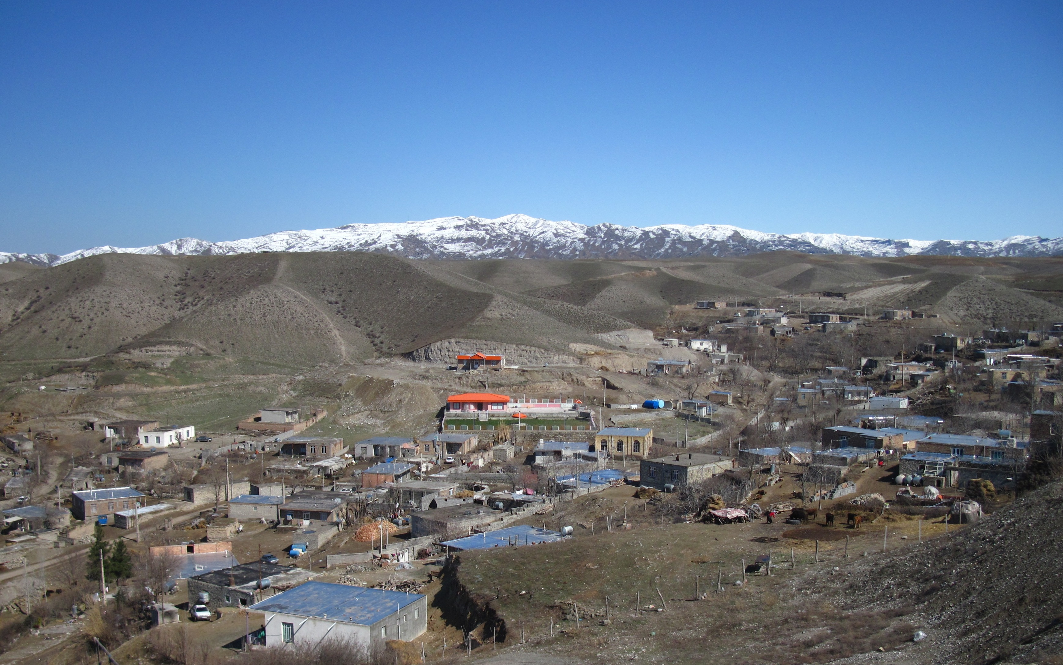 A photo intended for Derilou page.